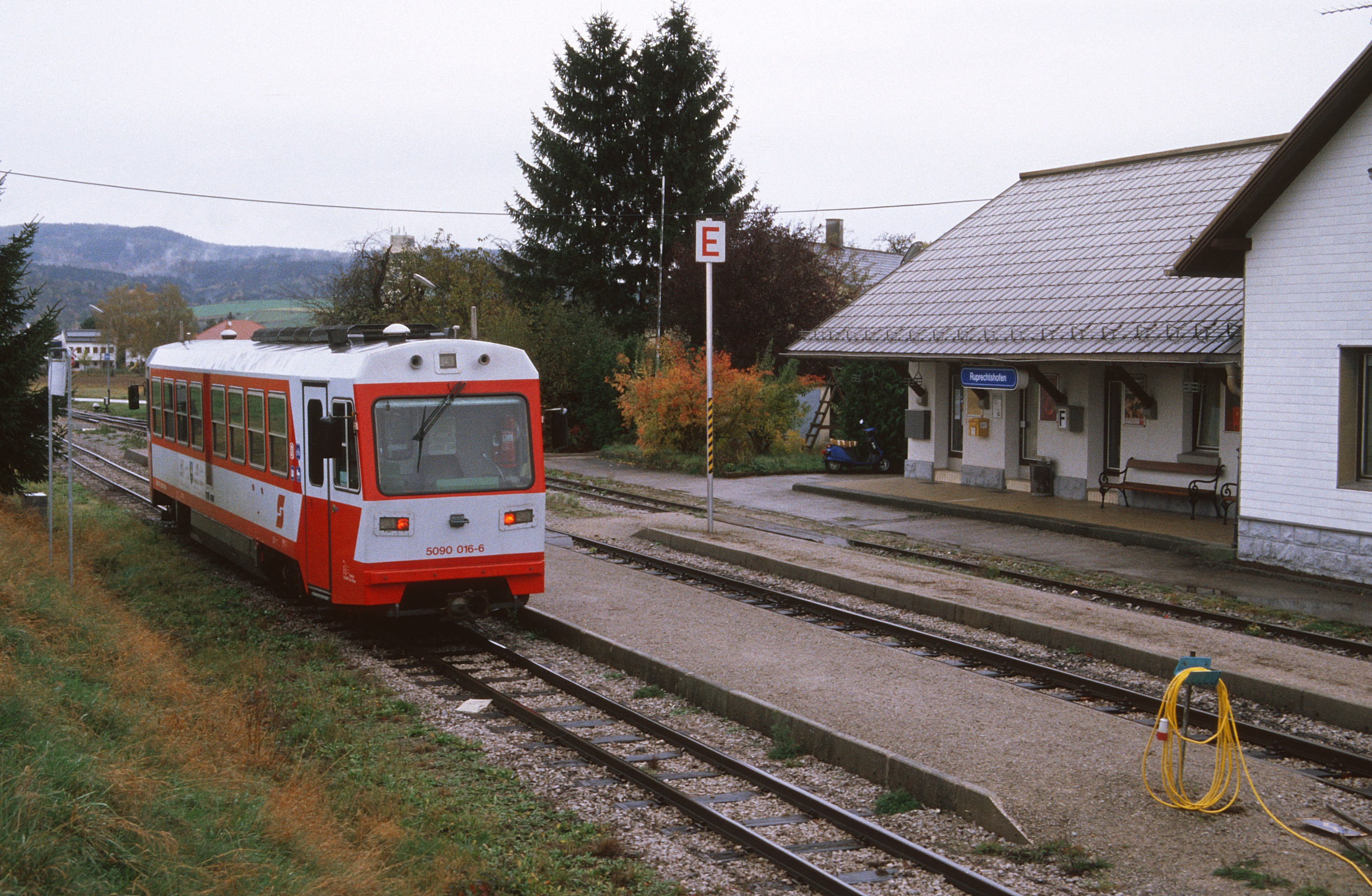 ÖBB 5090 016-6 in Ruprechtshofen on the now closed Mank -Ruprechtshofen section of the Mariazellerbahn branchline.